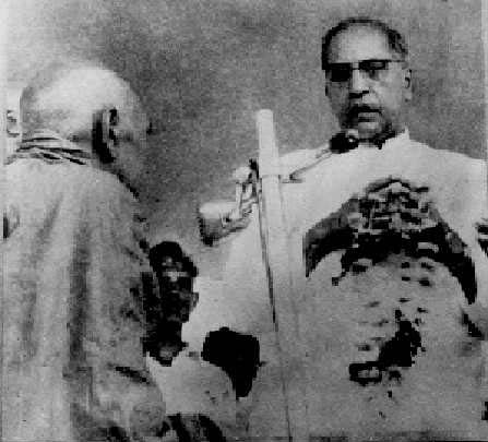 Dr. Ambedkar being administered 'Dhamma Deeksha' by Bhante Chandramani (from Kushinara) at Nagpur